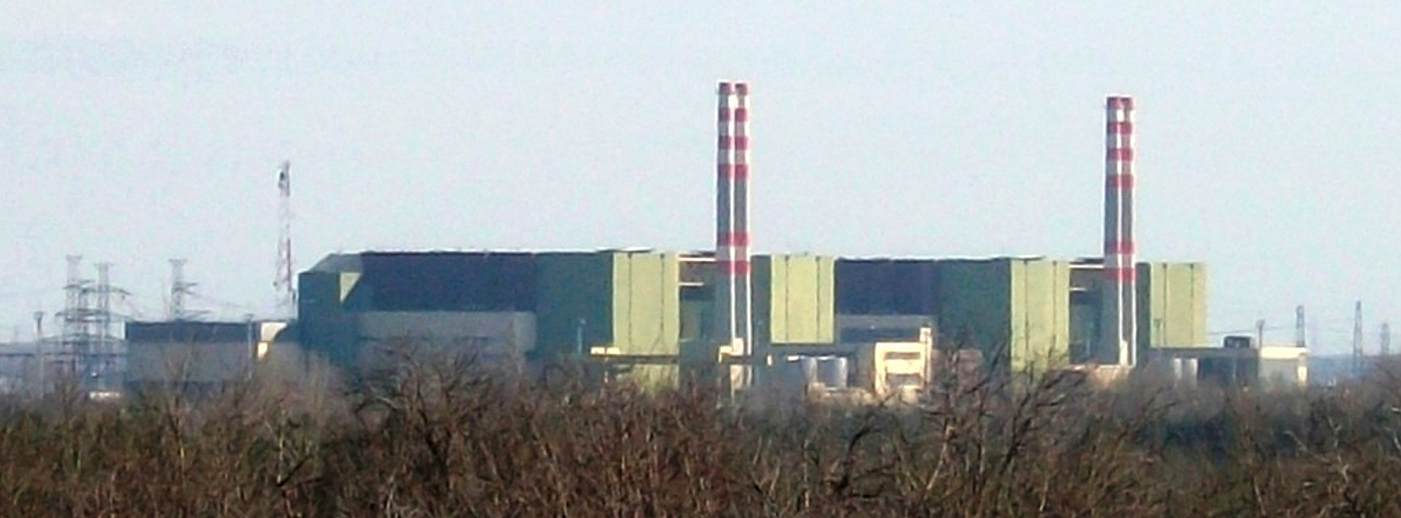 Paks Nuclear Power Plant, Hungary